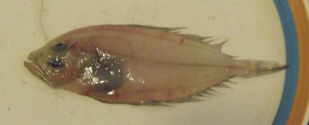 Lepidorhombus whiffiagonis collected by trawling nets in Italian waters of central Thyrrenian sea. Photo by Massimiliano Marcelli.